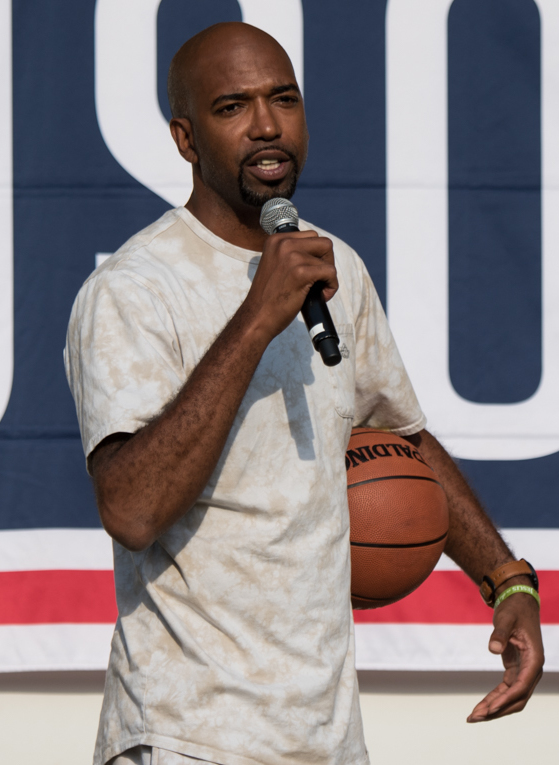 NBA Legend Richard "Rip" Hamilton speaks during a USO variety show at Yokota Air Base, Japan; the first stop on the annual Vice Chairman’s USO Tour, April 22, 2018. Comedian Jon Stewart, country music artist Craig Morgan, celebrity chef Robert Irvine, professional fighters Max “Blessed” Holloway and Paige VanZant, and NBA Legend Richard “Rip” Hamilton will join Gen. Selva on a tour across the world as they visit service members overseas to thank them for their service and sacrifice. (DoD Photo by U.S. Army Sgt. James K. McCann)